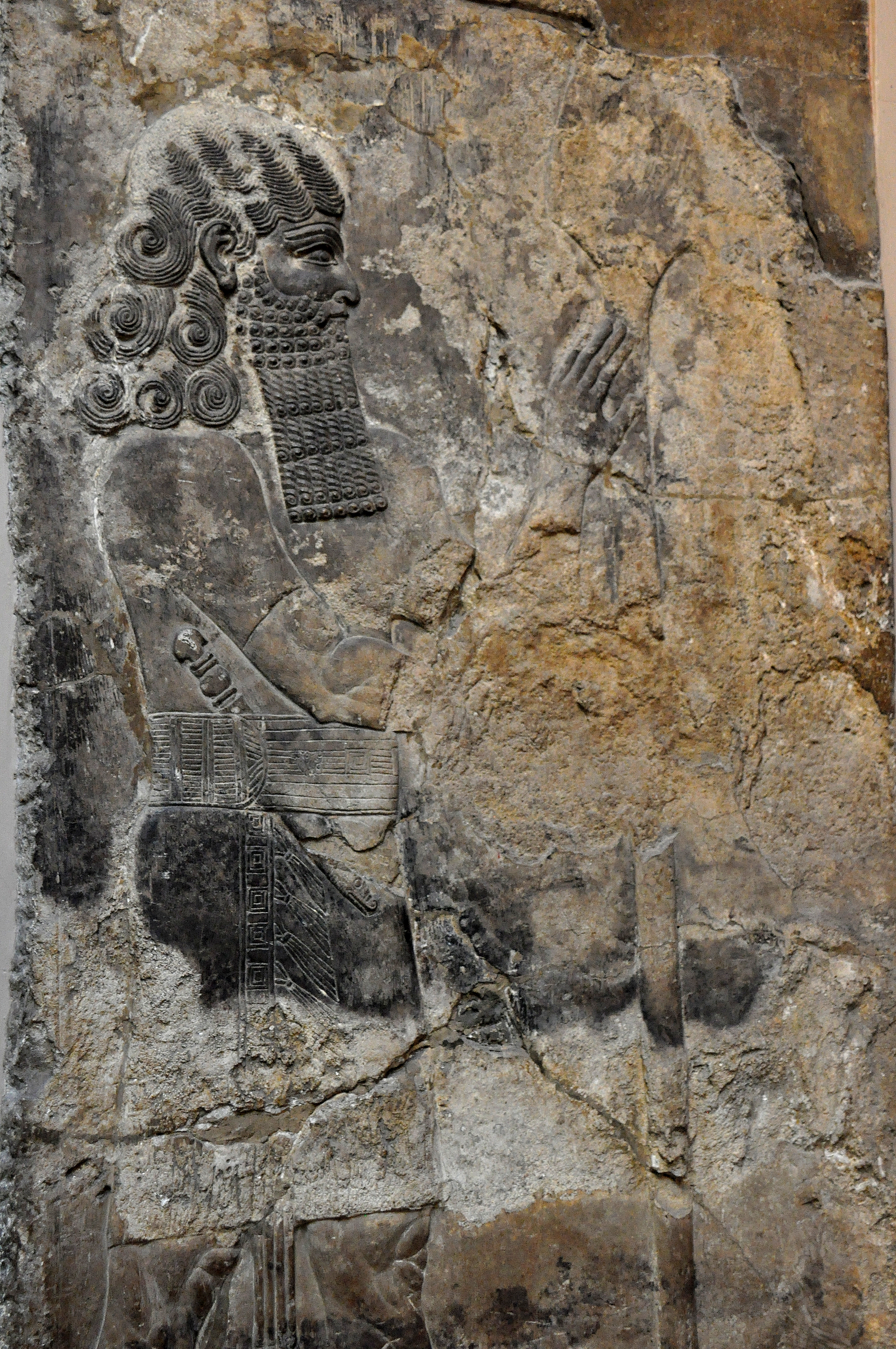 Alabaster bas-relief depicting Lahmu, one of the Assyrian protective spirits. From the South-West palace at Nineveh, modern-day Ninawa Governorate, Iraq. Neo-Assyrian period, 700-692 BCE. The British Museum, London.